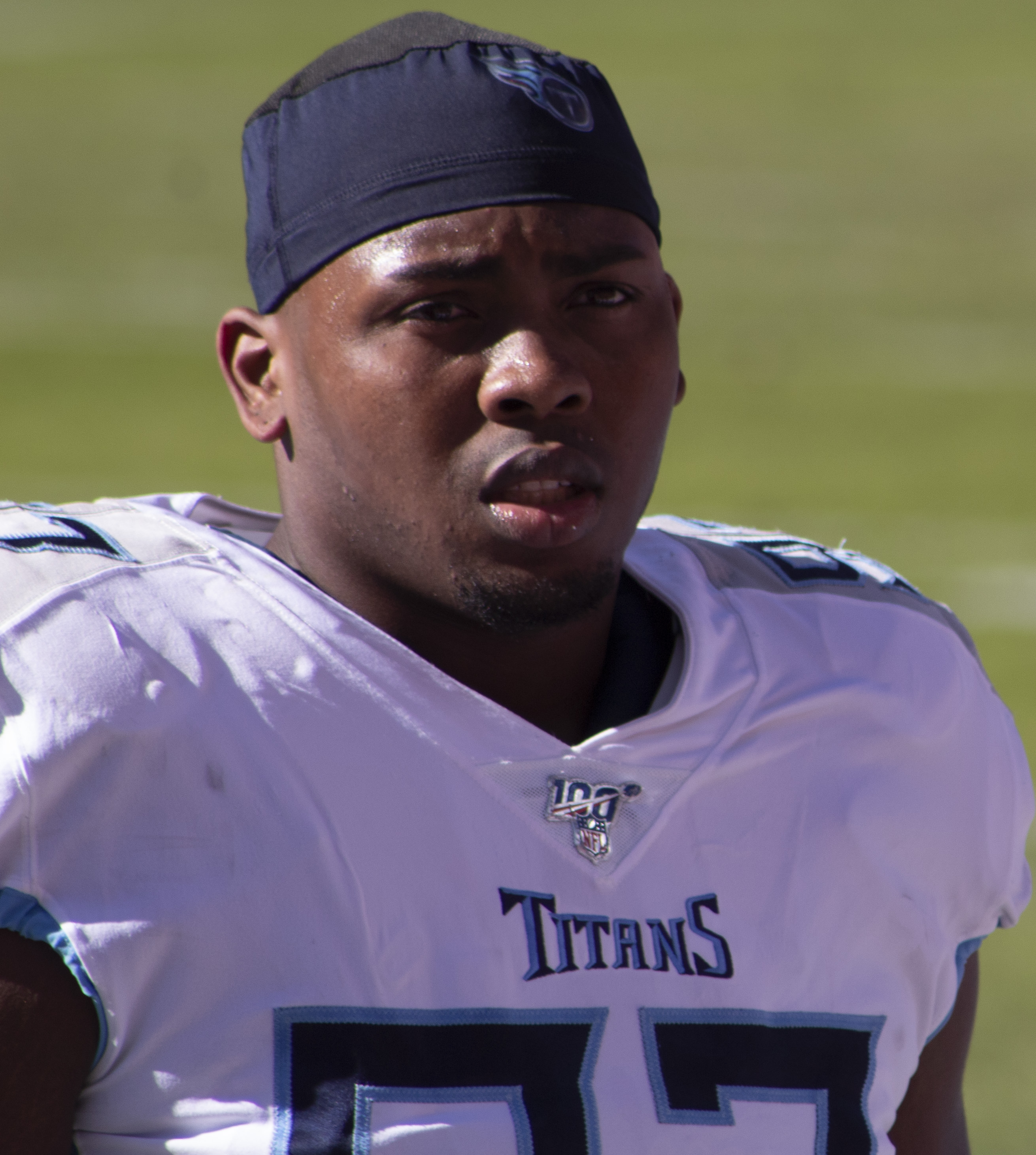 Isaiah Mack with the Tennessee Titans on October 13, 2019